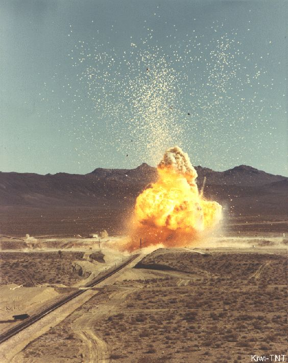 Kiwi TNT test. A nuclear reactor is deliberately blown up.